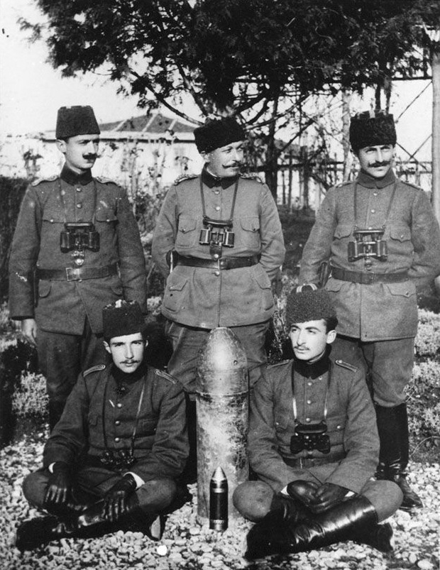 Hasan Riza Bey (later Pasha) and his staff during the Siege of Scutari.